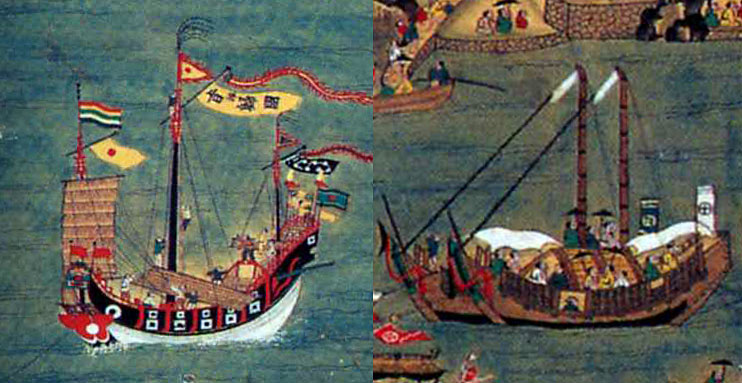 19世紀初頭の琉球王国と薩摩藩の船旗(Flag of Ryukyu and Satsuma in the early 19th century)